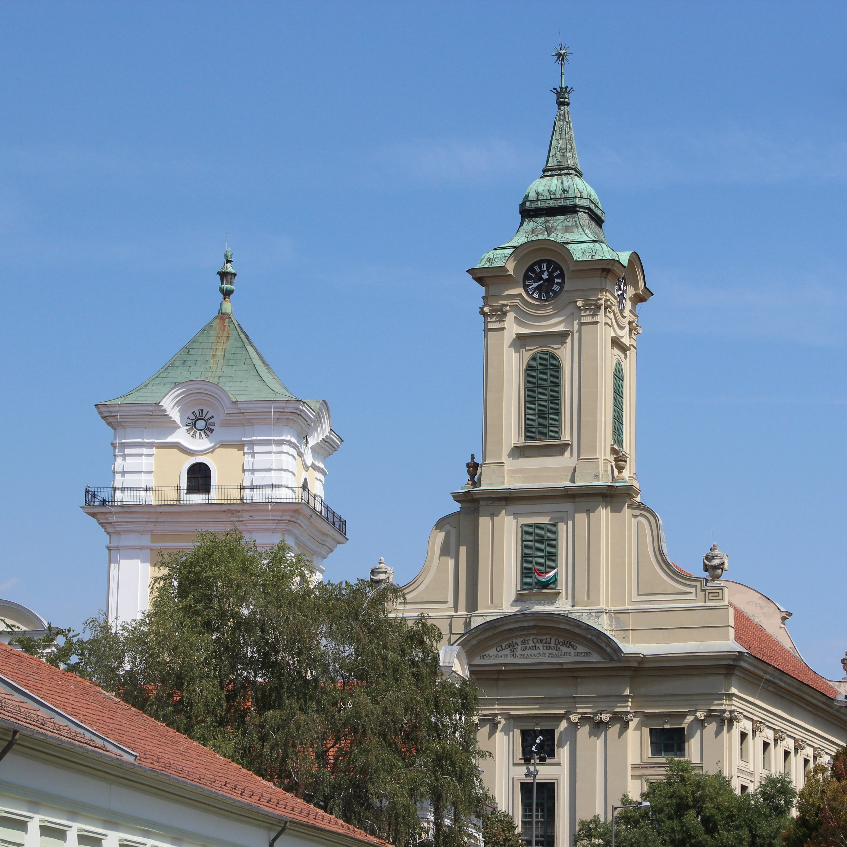 The two evangelic churches (Békéscsaba, Hungary).